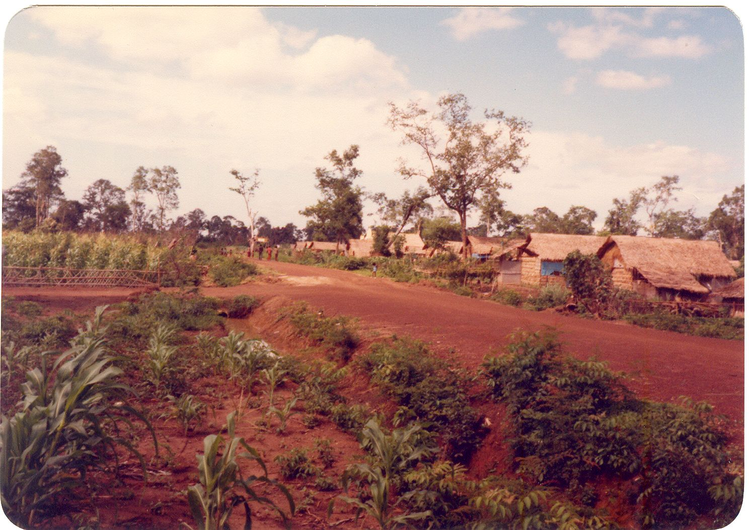 Nong Samet Camp road, section 2 north, near OPD 2, May 1984.